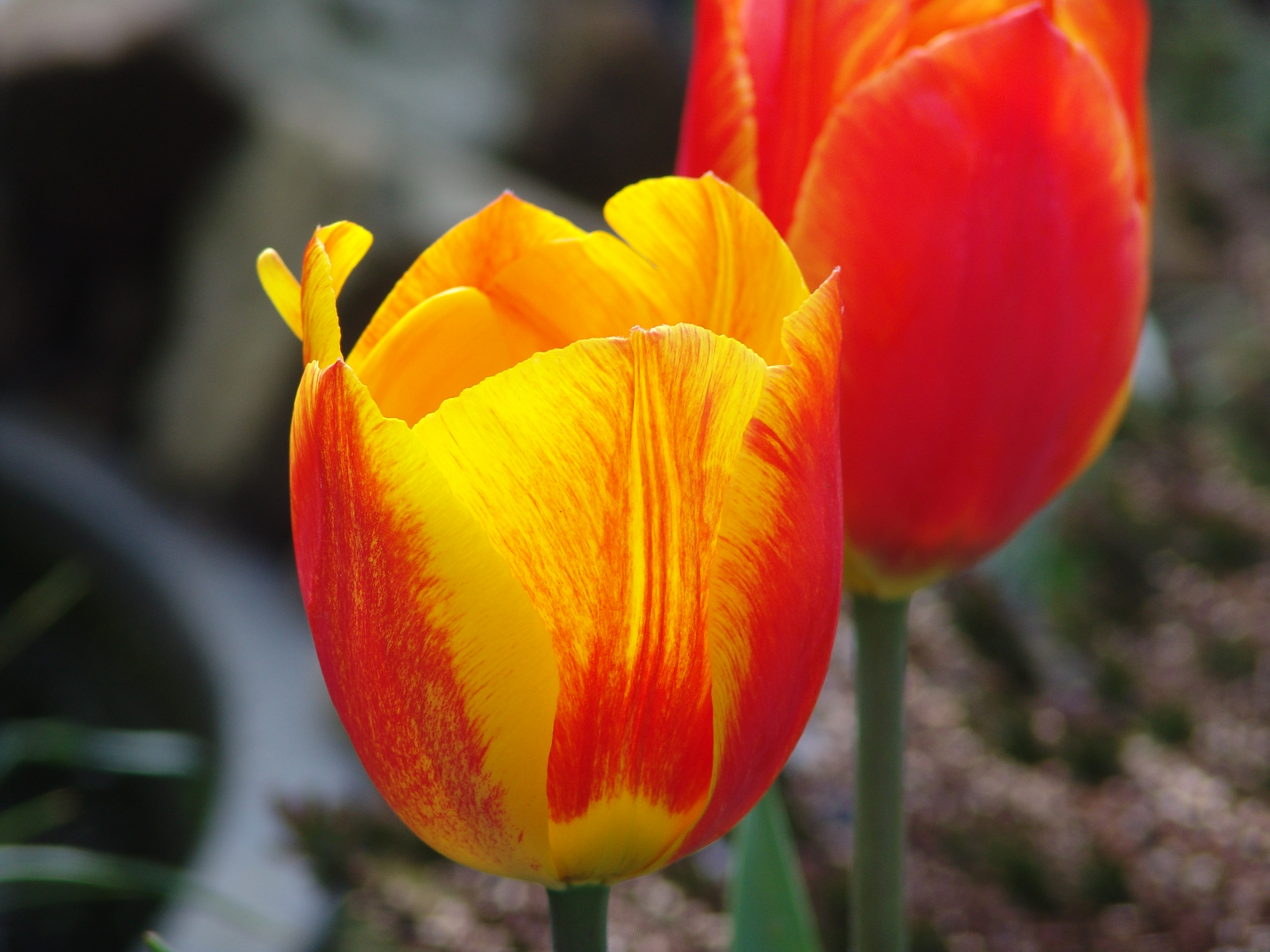 A picture of two tulips from our garden